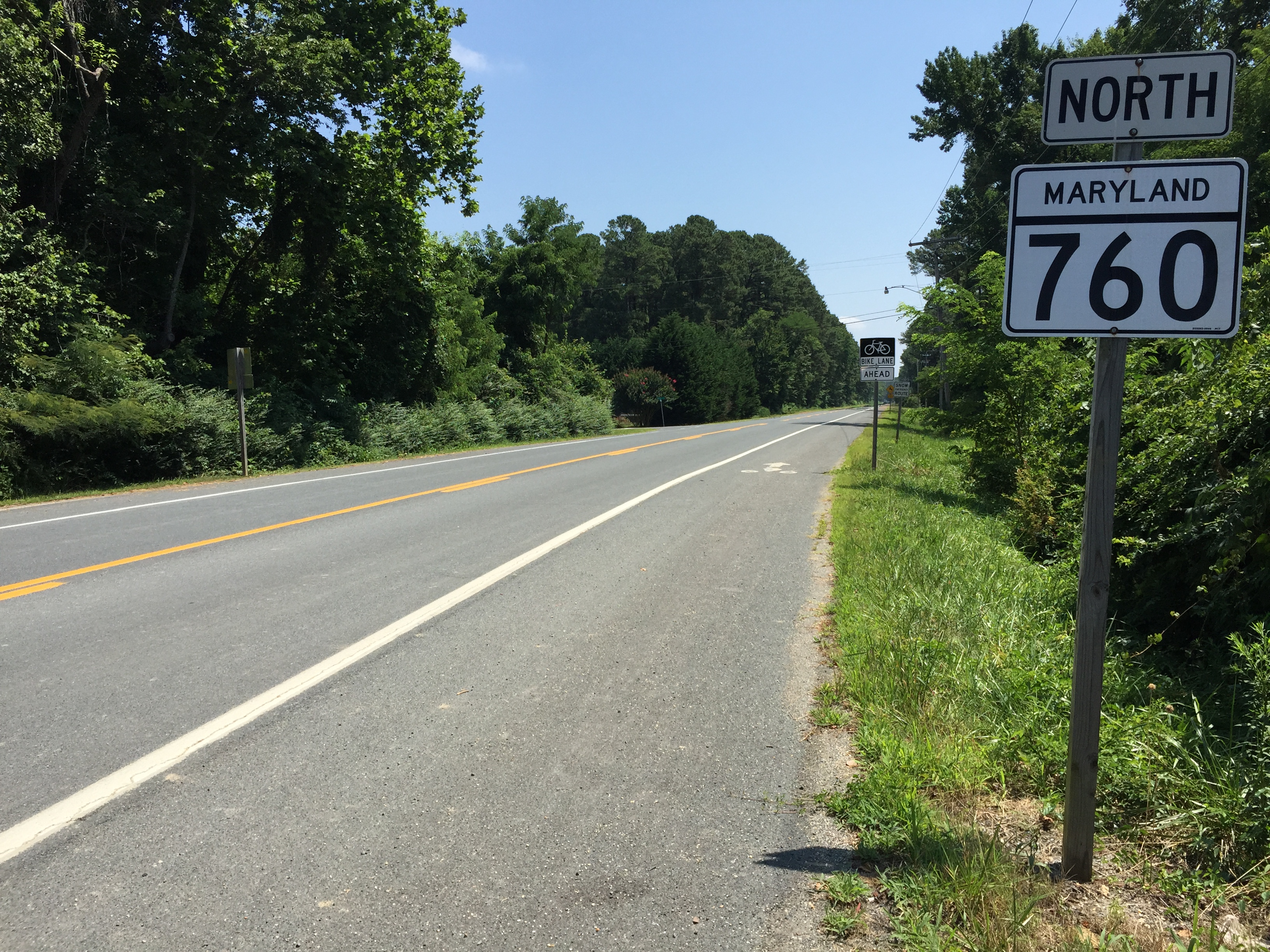 View north along Maryland State Route 760 (Rousby Hall Road) near Maryland Avenue in Drum Point, Calvert County, Maryland